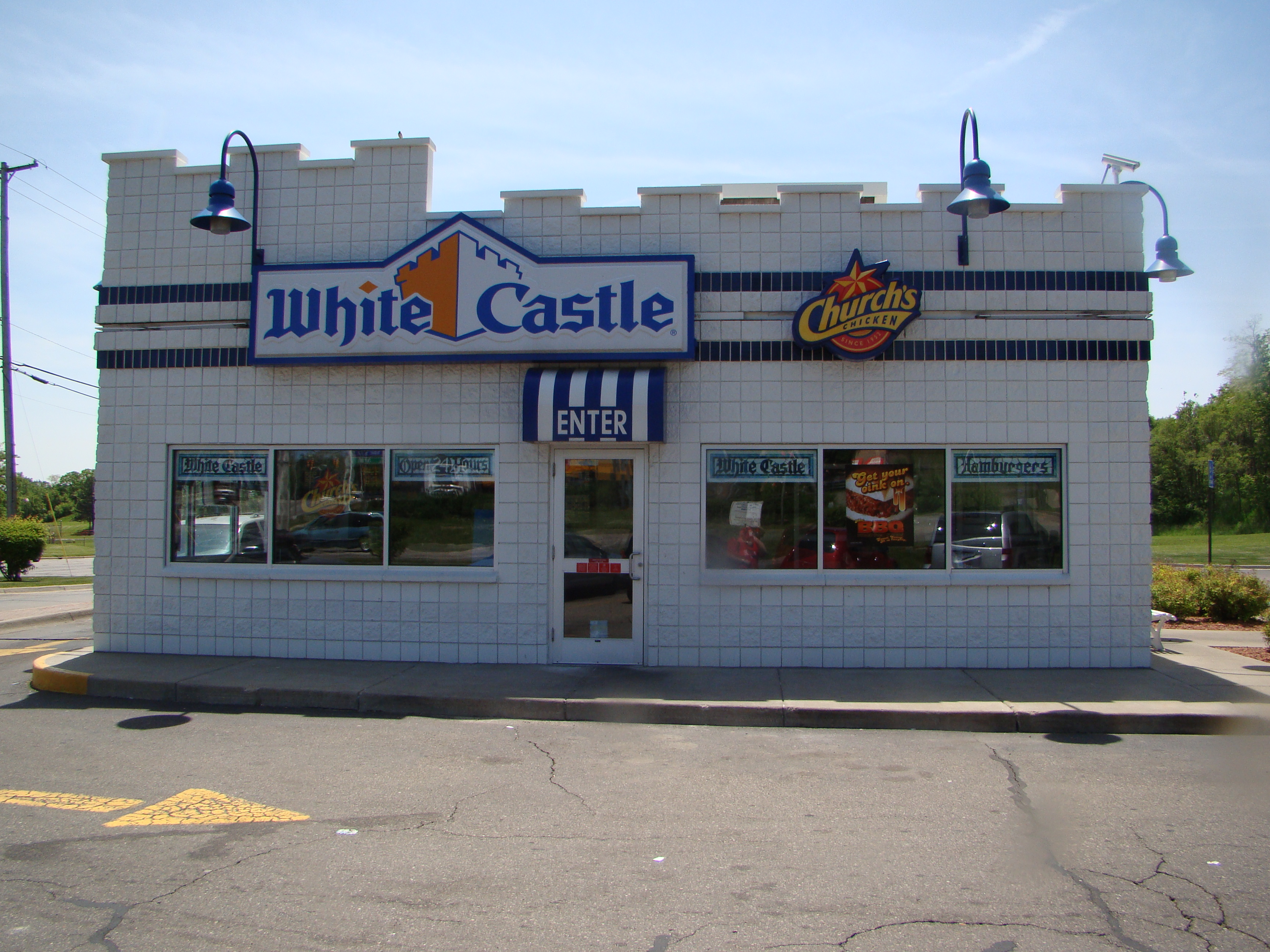 A White Castle restaurant on the outskirts of Detroit.